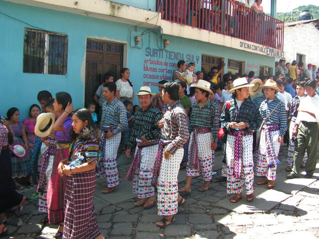 Independence Day parade in San Pedro la Laguna, Guatemala.